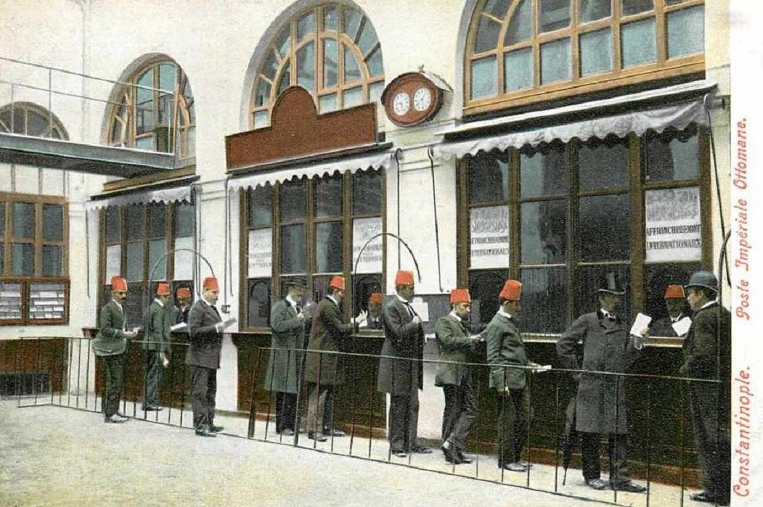 Interior of Istanbul's new General Post Office inaugurated in 1909. The two clocks on the wall display the Turkish time ("alaturca saat") and the Western time ("alafranga saat"). This is still Istanbul's main post office. The building also houses the Turkish Postal Museum. Contemporary post card, c. 1910.